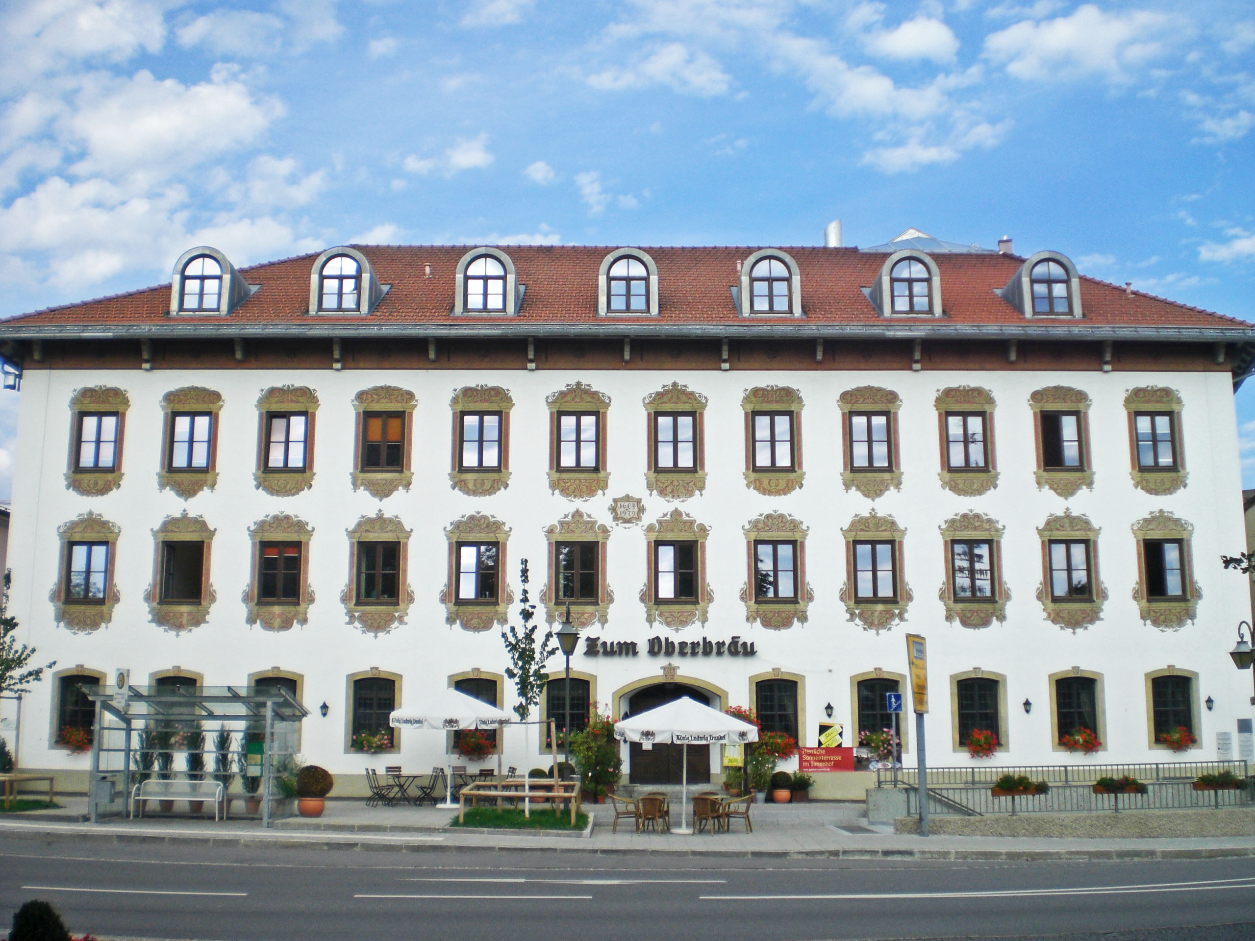 Building-marketplace-no18-Oberbraeu-inn-Holzkirchen-UpperBavaria-built1844-inSept2012